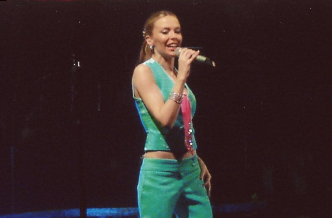 Kylie Minogue - Earls Court 060505 (24)